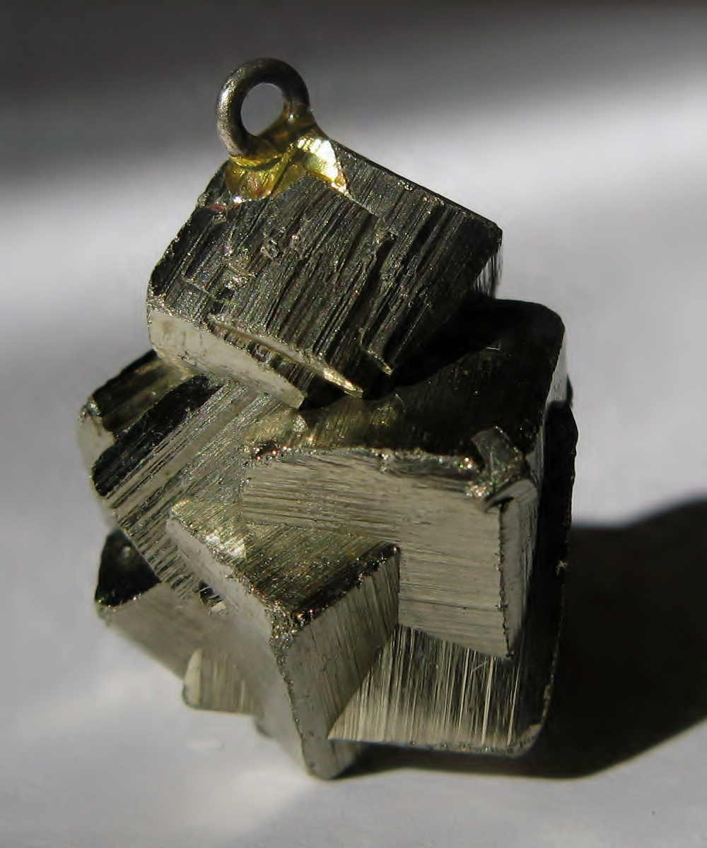 Pyrite-cube, poly twin as a pendant